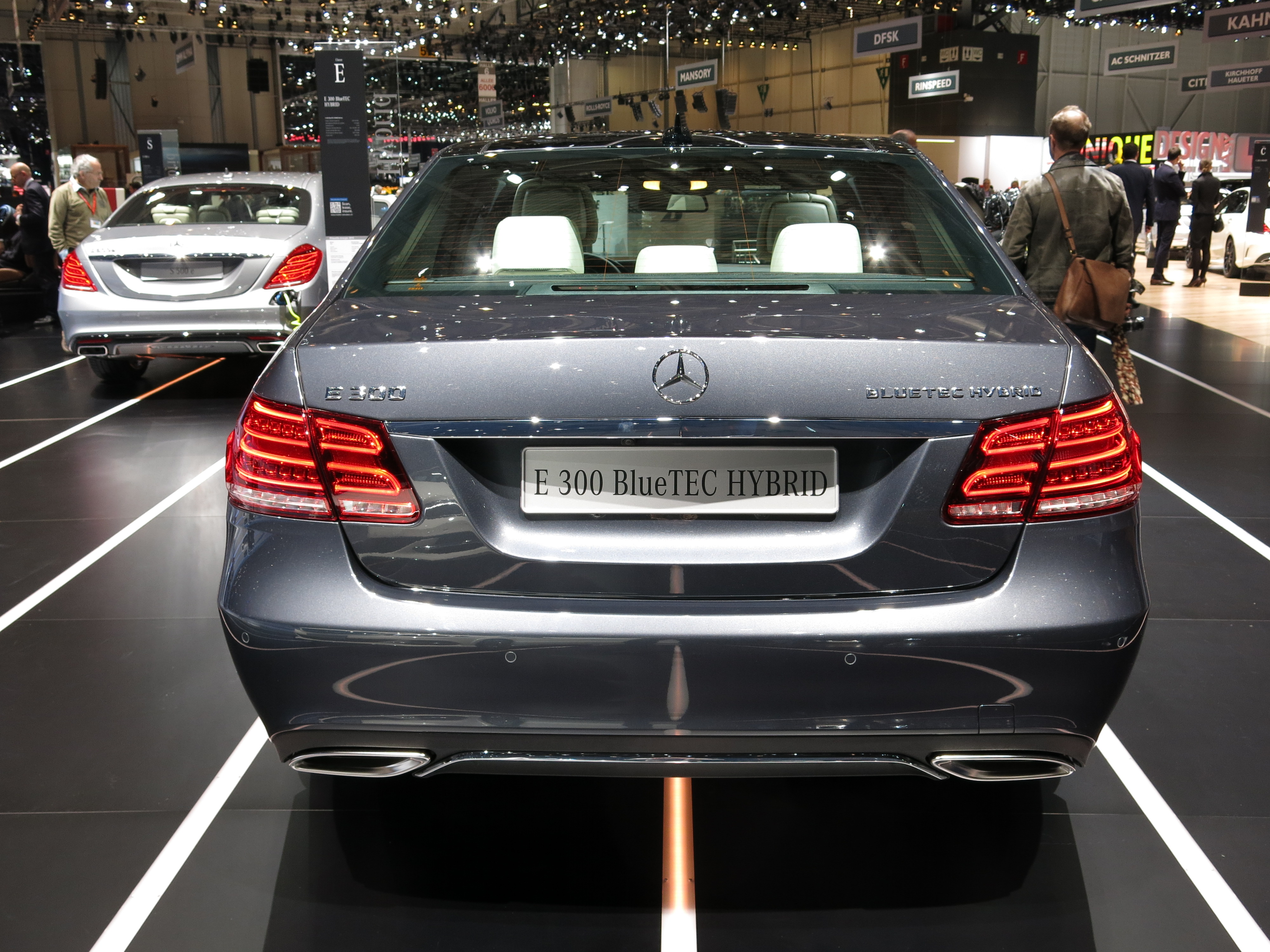 Geneva Motor Show 2015 (photo taken on the first press day)